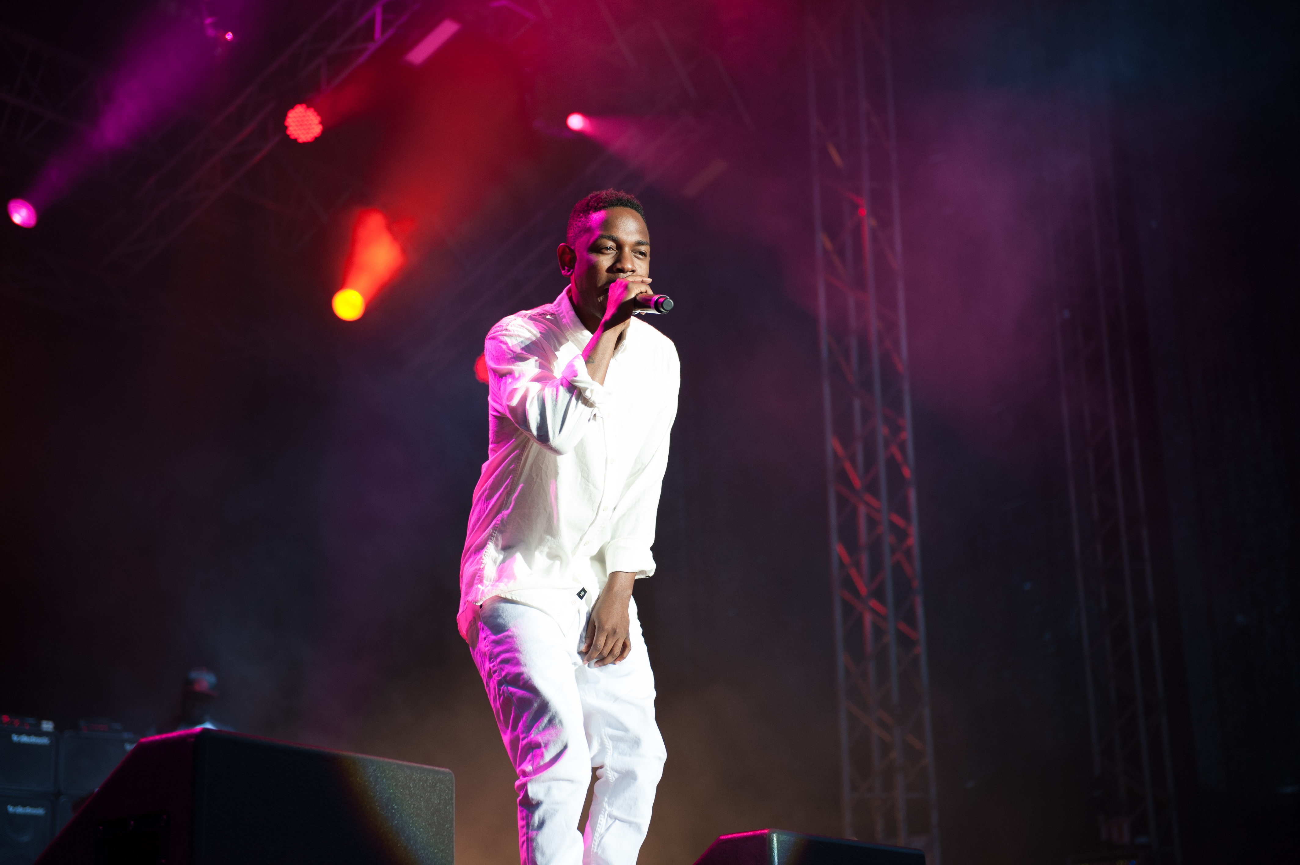 Kendrick Lamar at Way Out West 2013 in Gothenburg, Sweden